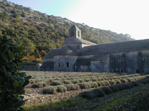 The Abbey of Senanque, near Gordes, Vaucluse, France.